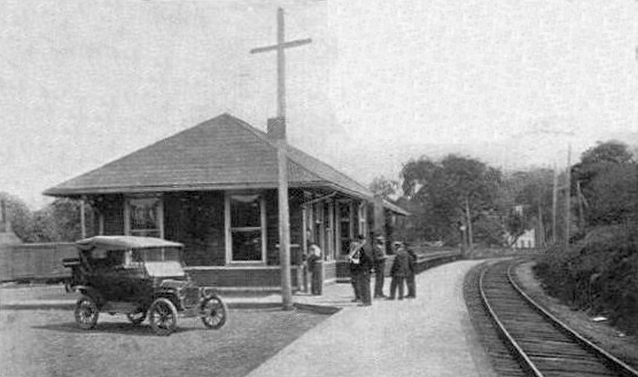 Postcard: Railroad station, in the hamlet of Georgetown, Connecticut on the Danbury Line, 1919 postmark Description: Caption on picture side: "R.R. STATION, GEORGETOWN, CONN." Store Web page states: "Postally Used - PM [postmark] Danbury, Conn Sept 11, 1919" Source: eBay store Web page